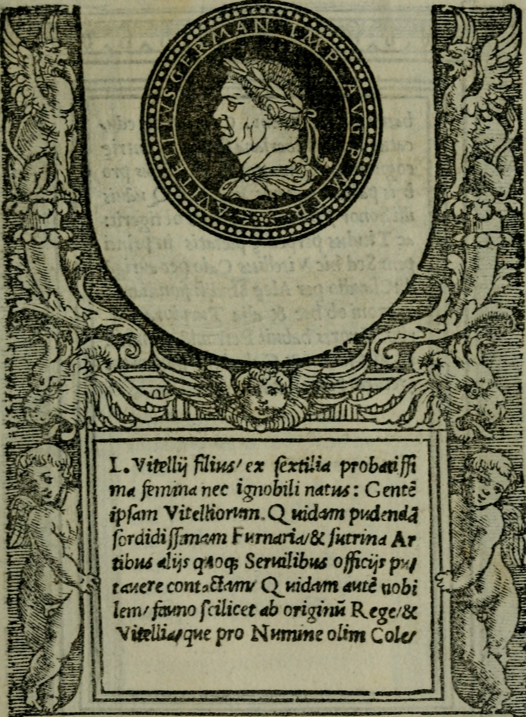 Title: Illvstrivm imagines Year: 1517 (1510s) Authors: Fulvio, Andrea, fl. 1510-1543 Carpi, Ugo da, 1480-(ca.) 1532 Palumba, Giovanni Battista, 16th cent Subjects: Mazochius, Jacobus, fl. 1506-1527 Emperors Numismatics, Roman Publisher: Impraessum Romae : Apud Iacobum Mazochium ... Text Appearing Before Image: Conimx.k. yitottijfimpcTdiori*M&Ynon Igiob&v: acprobdtiffinut fcmm*:qHt duot fxj^ipfg j$ JLTITSIXIVS CER.IMP.AYG. LVI Text Appearing After Image: L.VitellijfiliWex fixtili* probdtifjitn* femtna nec ignobili ndtns: Gmtijpfam Vitcltioritm.QKid&n pudmdjfcrdidiffmvxm h yrmru/dc fktrind Arnbus dlijs qioq SerwlibHS offidjr pv/tcMtrt conu&vnv Qjridtm *uti uobilemf&mofdlicet*b ortgiVw Kegc&cV WlWgwe pro Nwrrawe olhn Qolc/